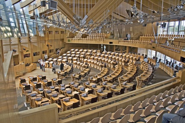 Scottish Parliament, Main Debating Chamber